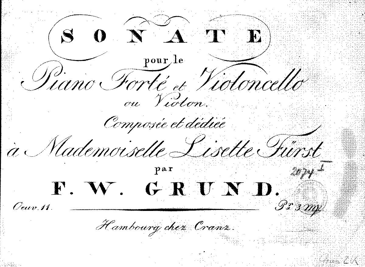 Title page 1820 of Sonate Opus 11, of German composer Friedrich Wilhelm Grund (1791–1874), dediated to Lisette Fürst, daughter of (Lorenz) Levin Salomon Fürst (1763–1849)